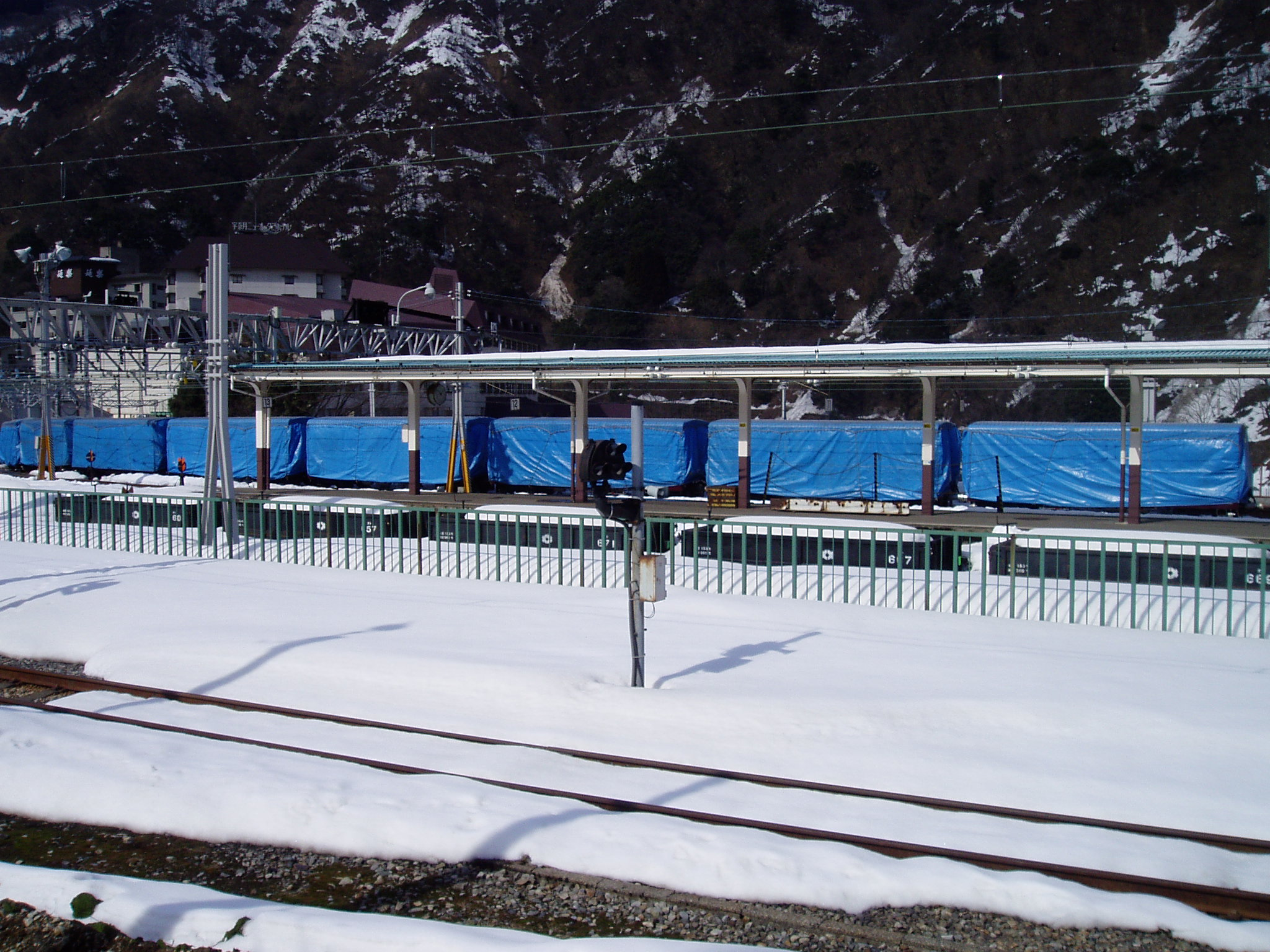 This is Unaduki Station in Gorge Kyokoku Railway